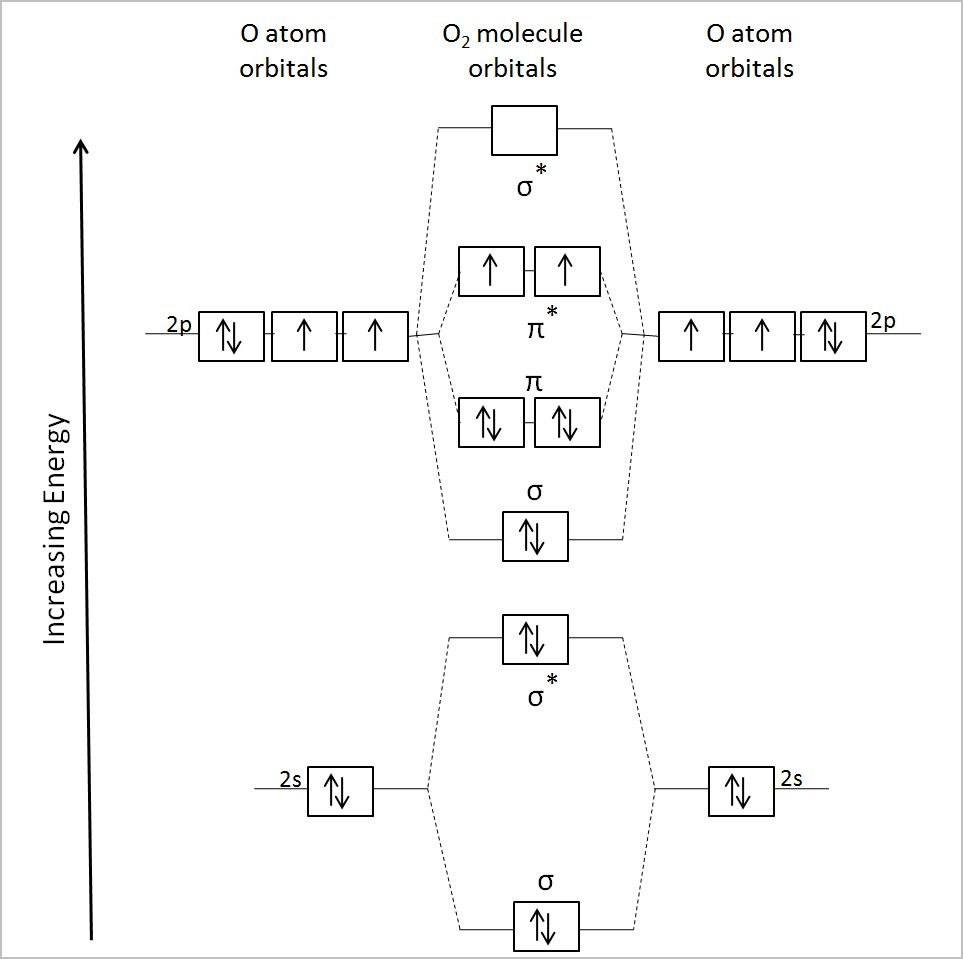 Molecular orbital energy diagram for O2